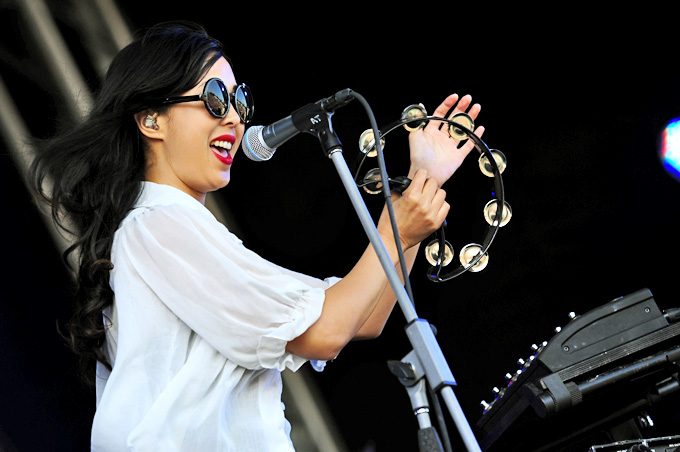 Southbound Festival 2012